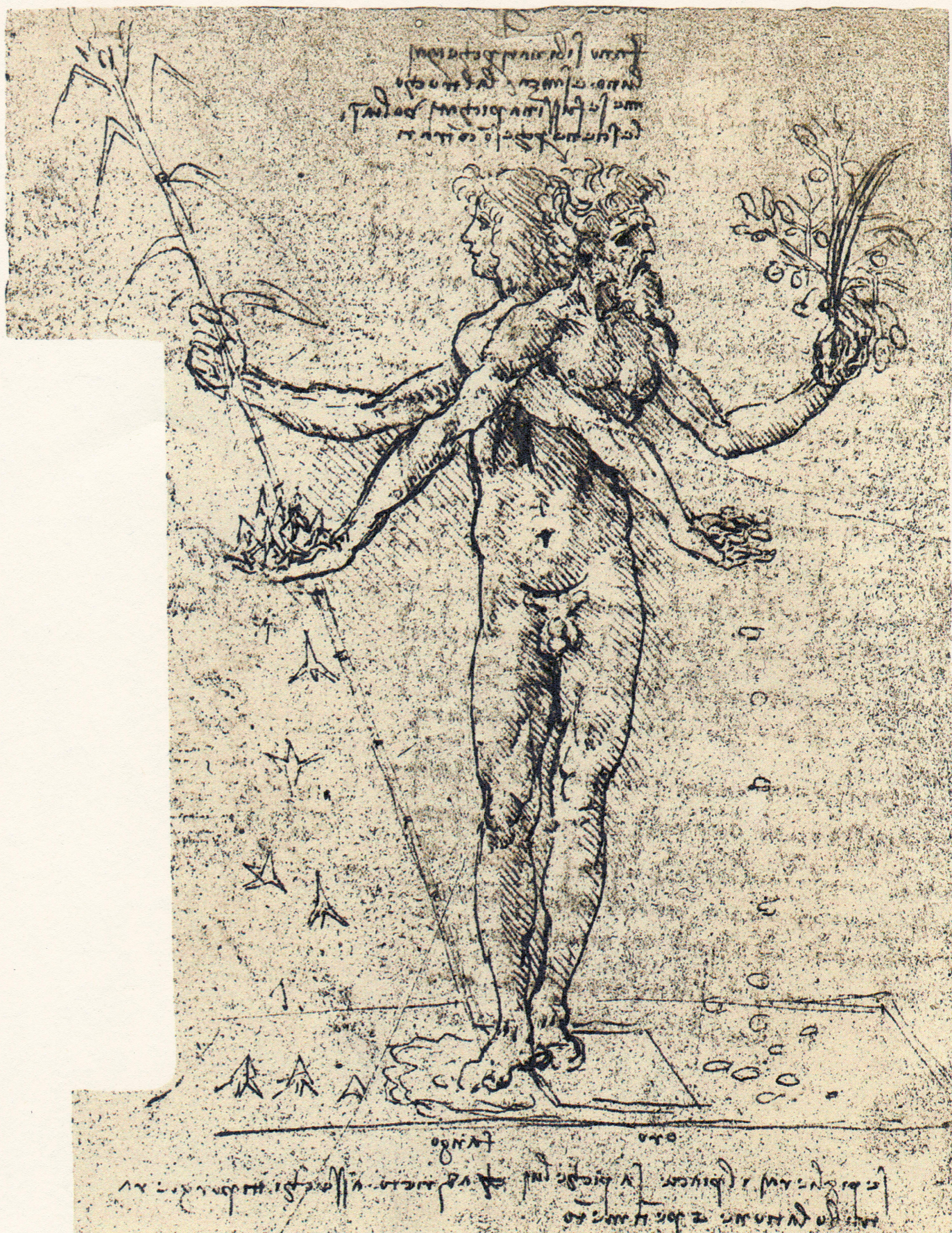 Hermaphrodit